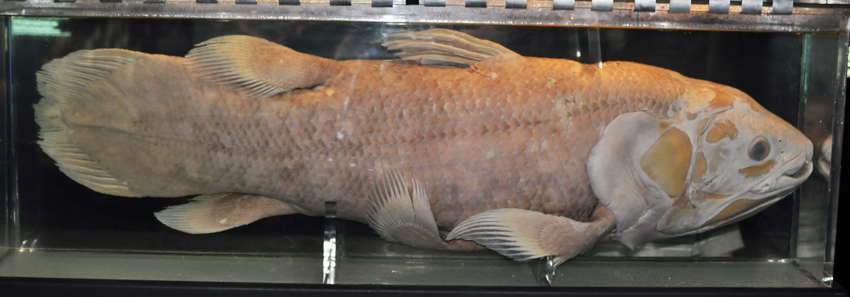 Coelacanth (Latimeria chalumnae) caught on 21 January 1965, next to Mutsamudu (Anjouan, Comoro Islands).C36